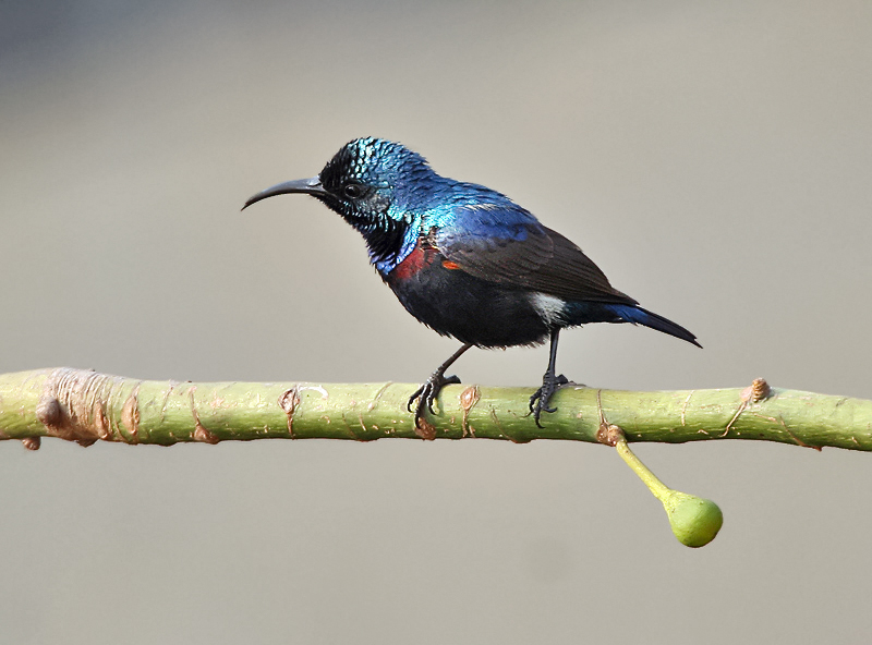 Purple Sunbird( (Nectarinia asiatica) in Kolkata, West Bengal, India.